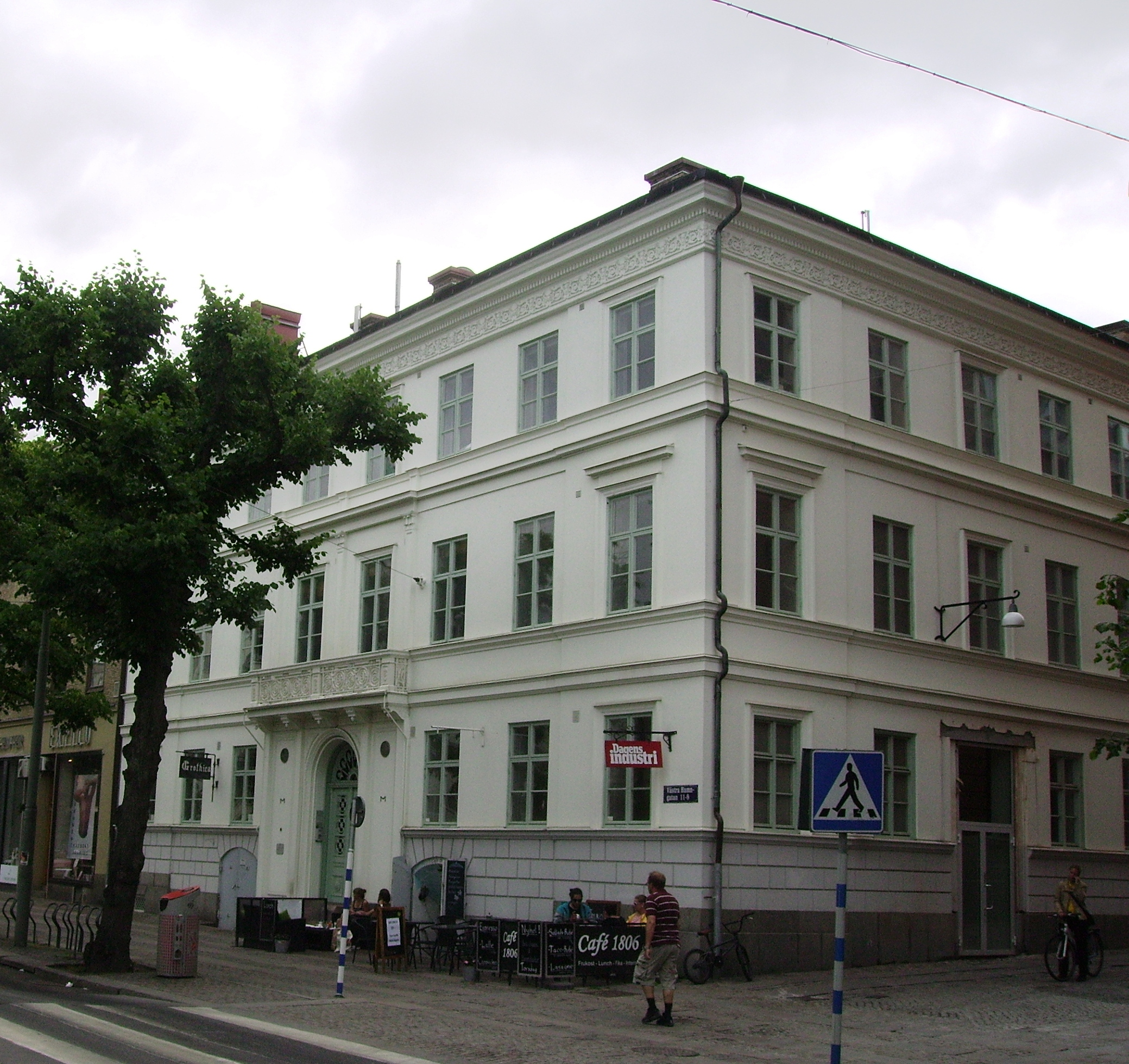 Picture of Västra Hamngatan 9 in Gothenburg